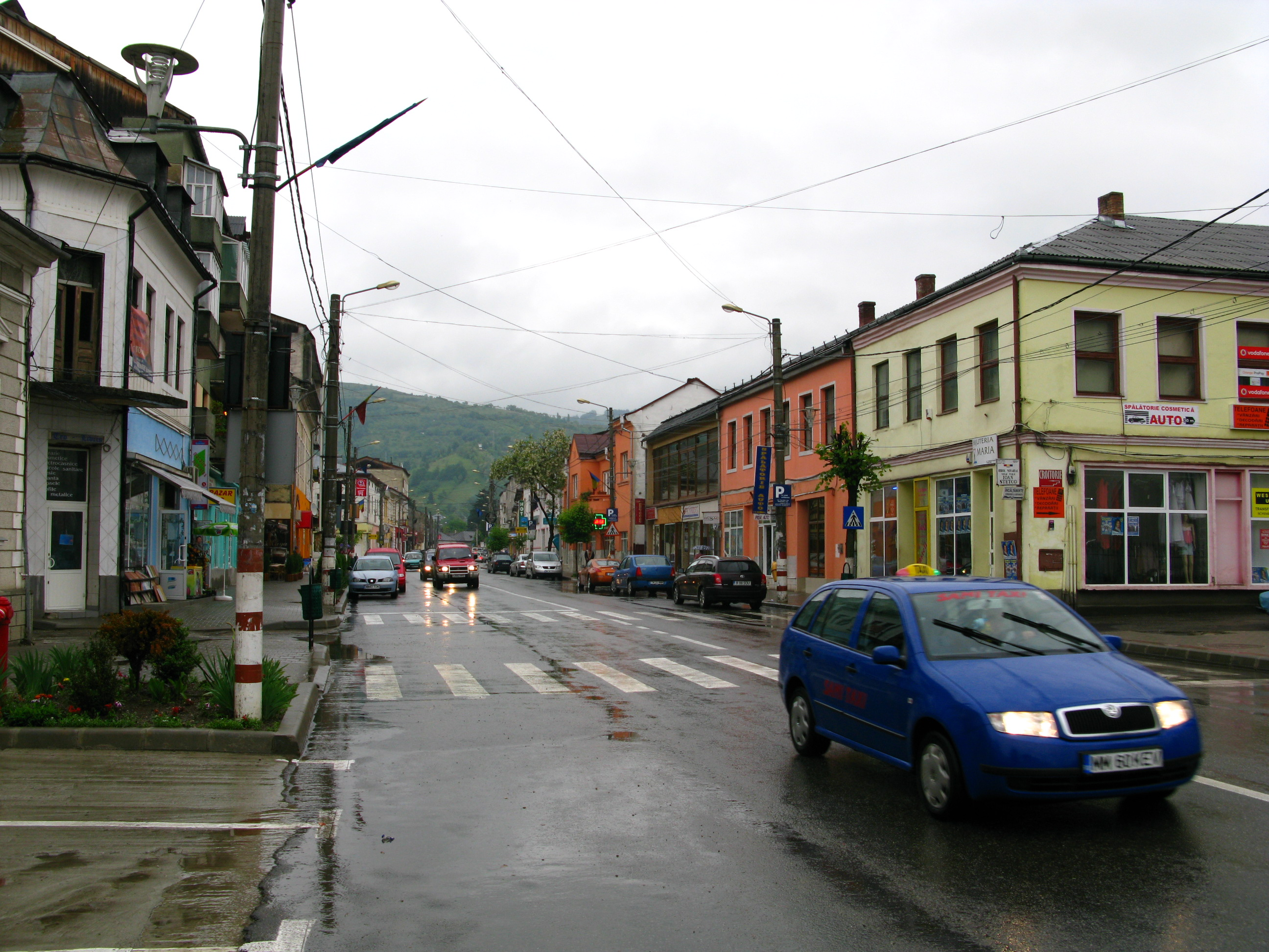 Main in Viseu de Mijloc in Maramureş Mountains (Inner Eastern Carpathians) in north of Rumania / EU.